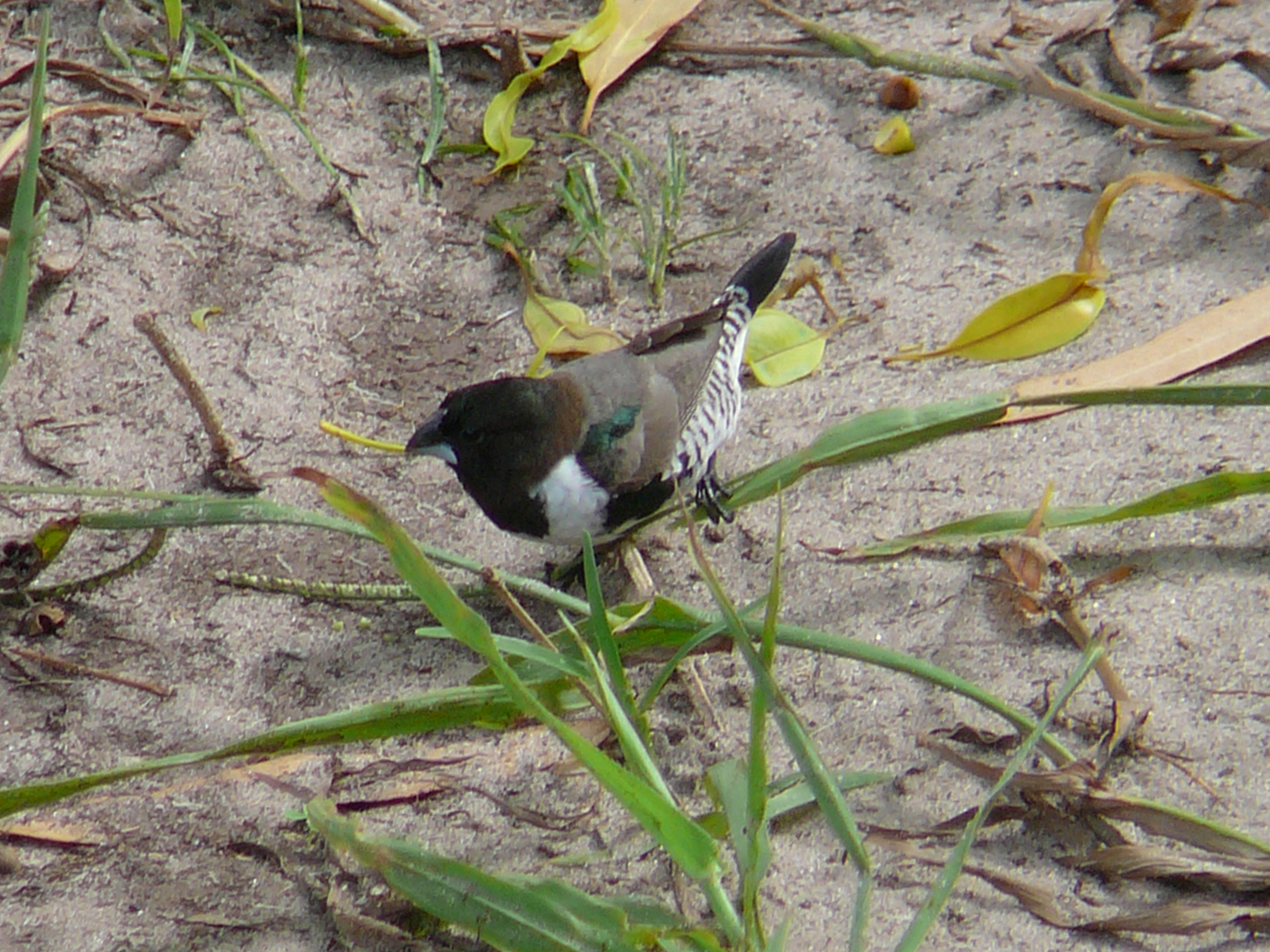 Bronze Mannikin